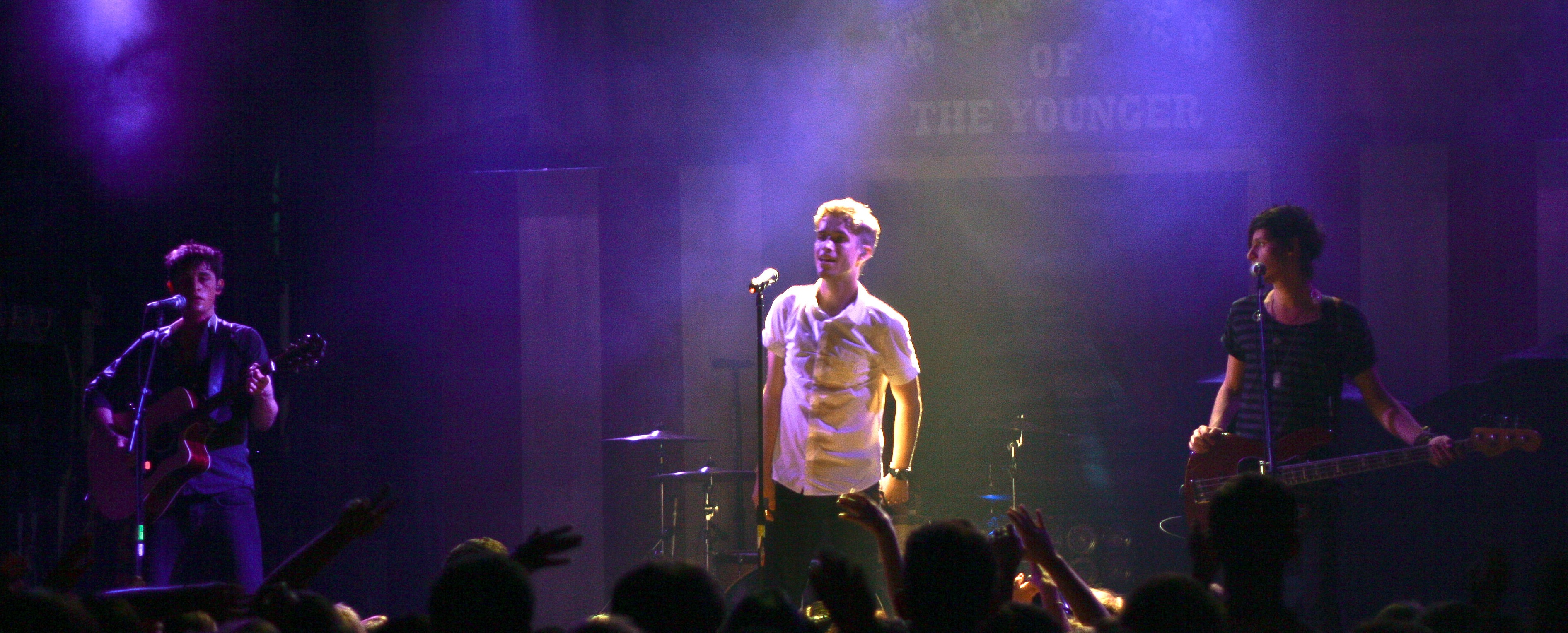 The Summer Set during the Wonders of the Younger Tour in 2011